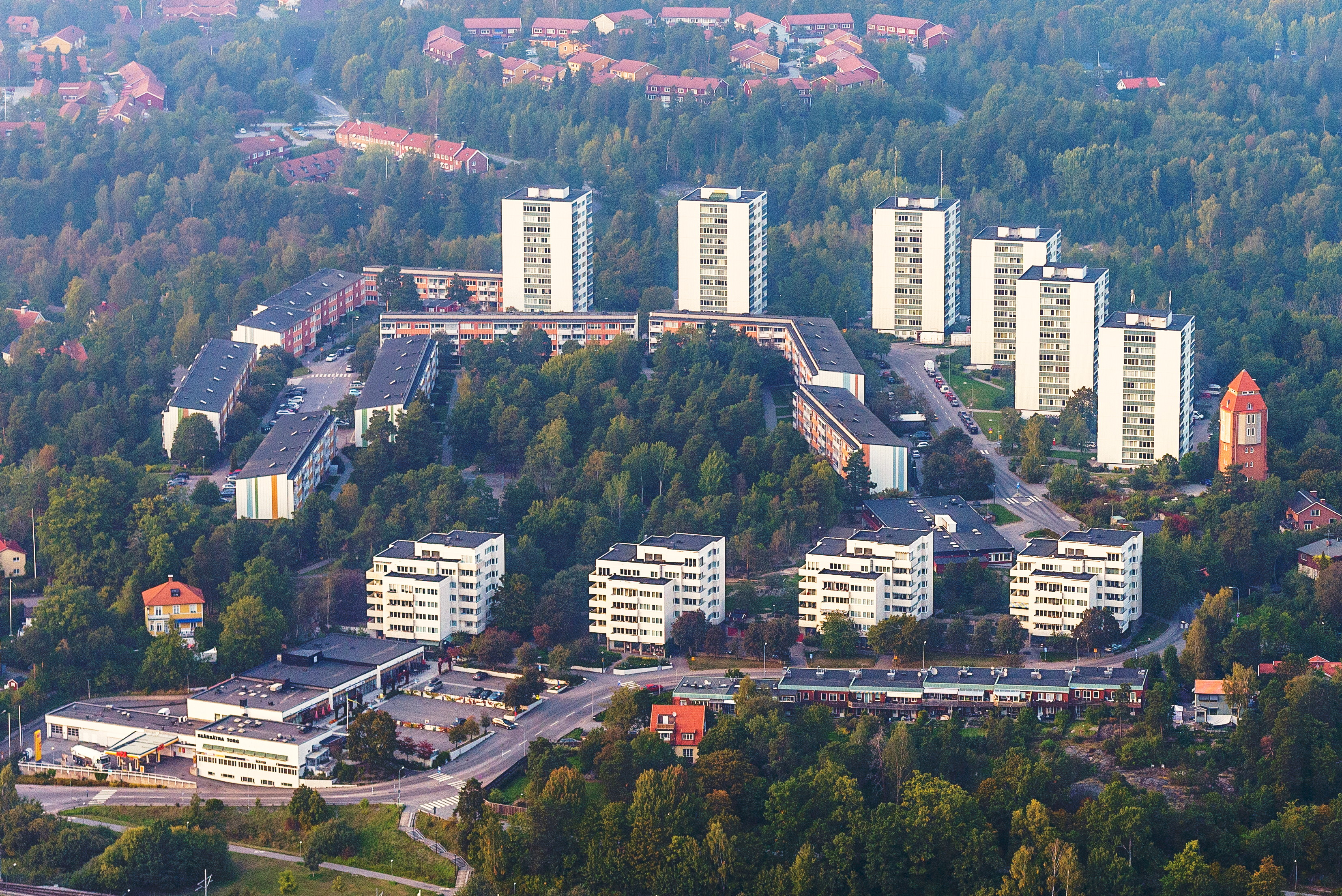 Skärsätra, Lidingö.